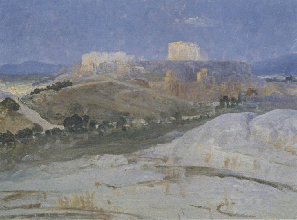 Acropolis at twilight